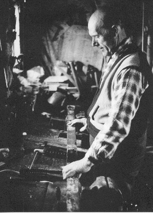 The smith Verner Sørensen in his forge near Roskilde, Denmark. He holds a wall tie he just made.